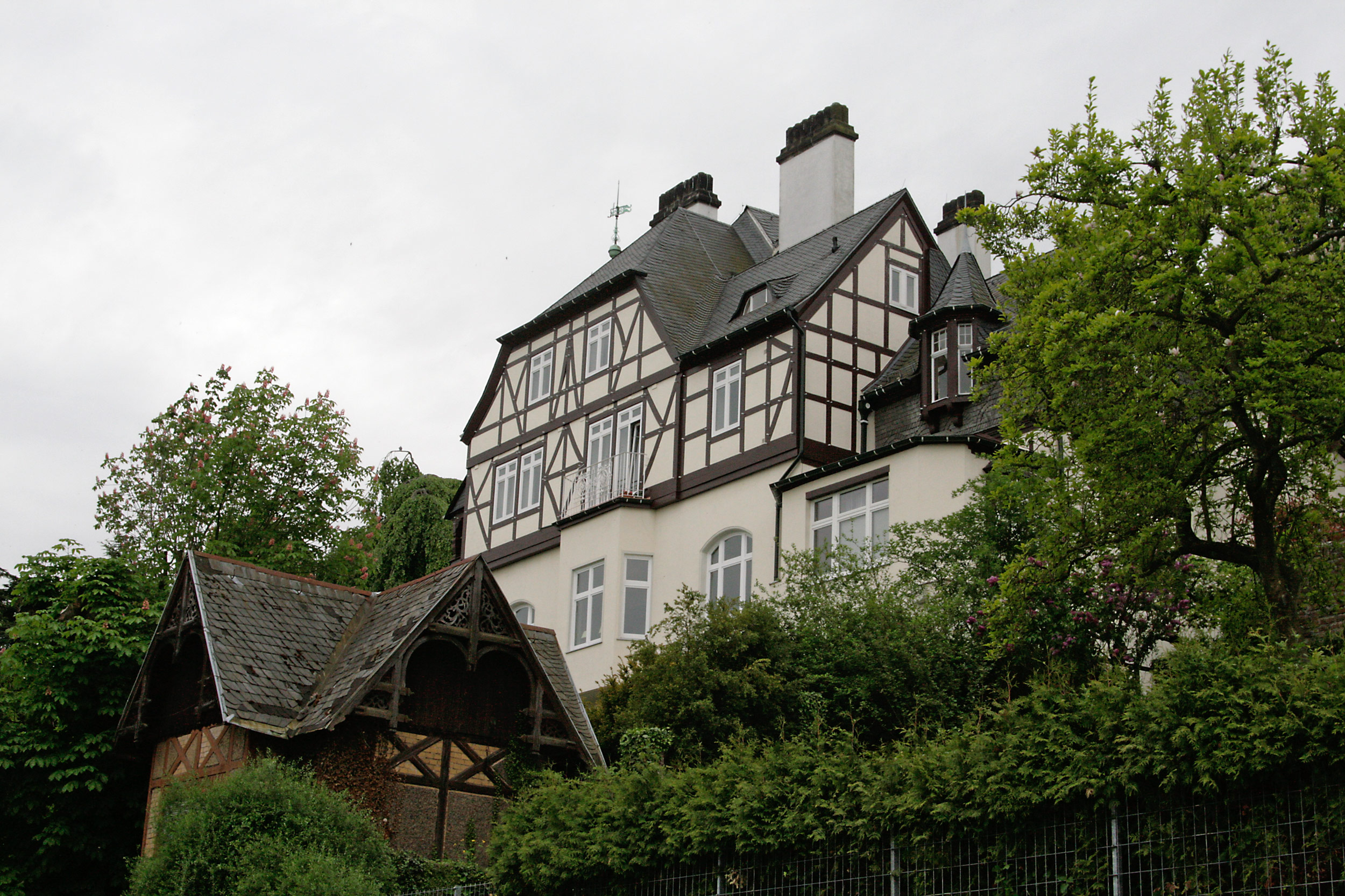 Cultural heritage monument in Bad Godesberg